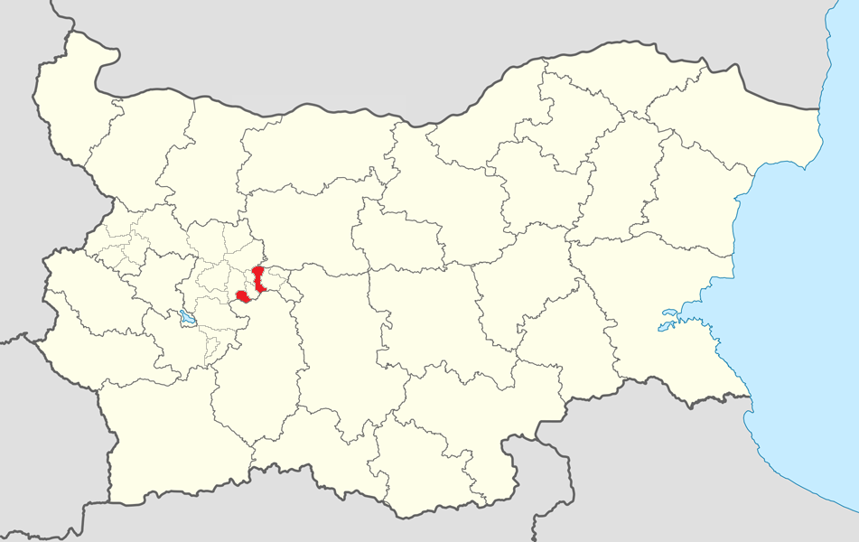 Location map of Zlatitsa Municipality within Bulgaria and Sofia province